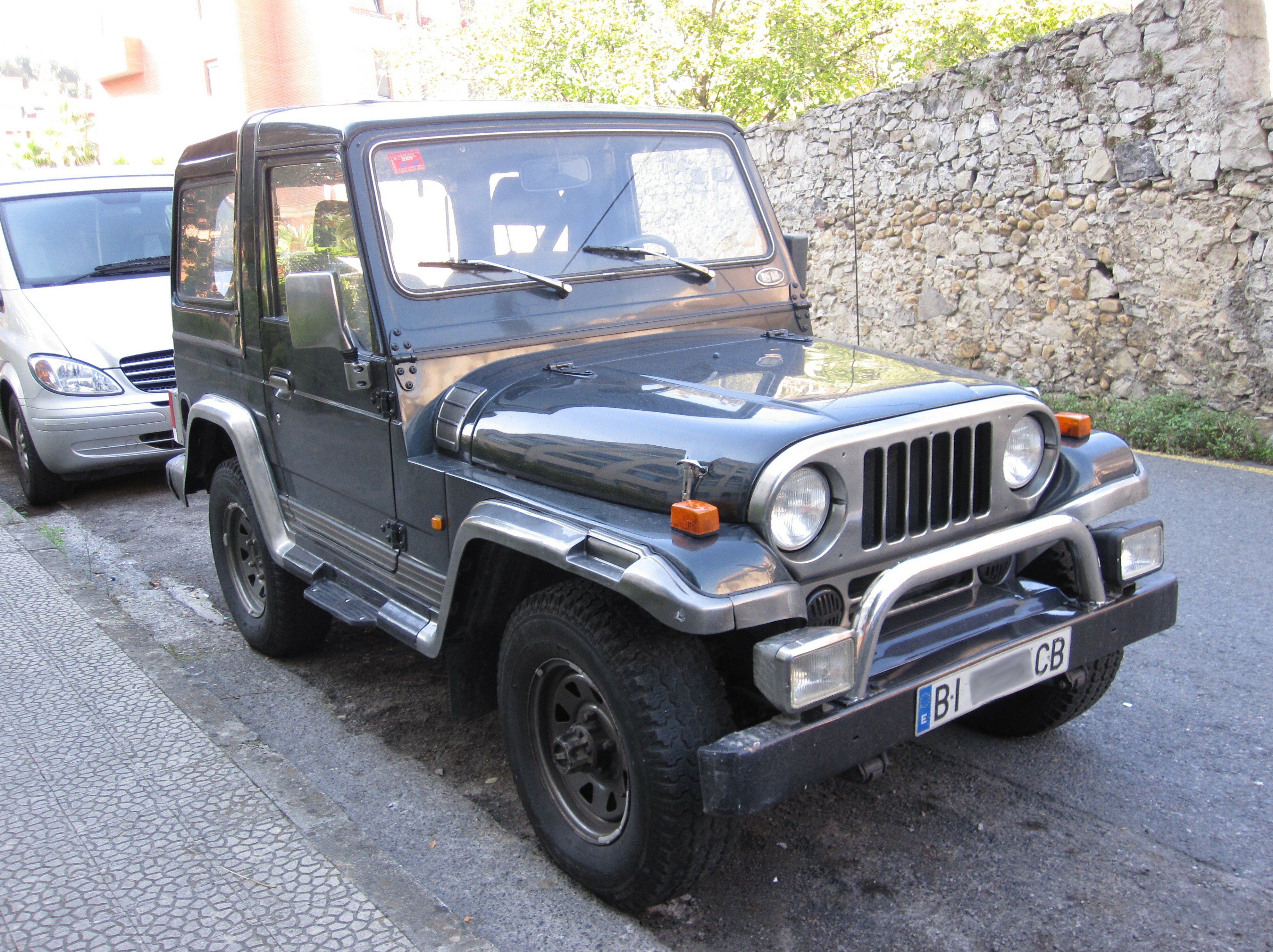 Another rare car! I've always liked a lot these cars "Wranger-like" they have to be kind of fun to drive :) This one had a 1996 plate from Bilbao (Vizcaya) and was seen in Castro Urdiales (Cantabria).